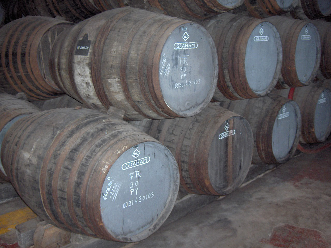 Wooden barrels of port wine in the cave of the producer: Porto, Portugal